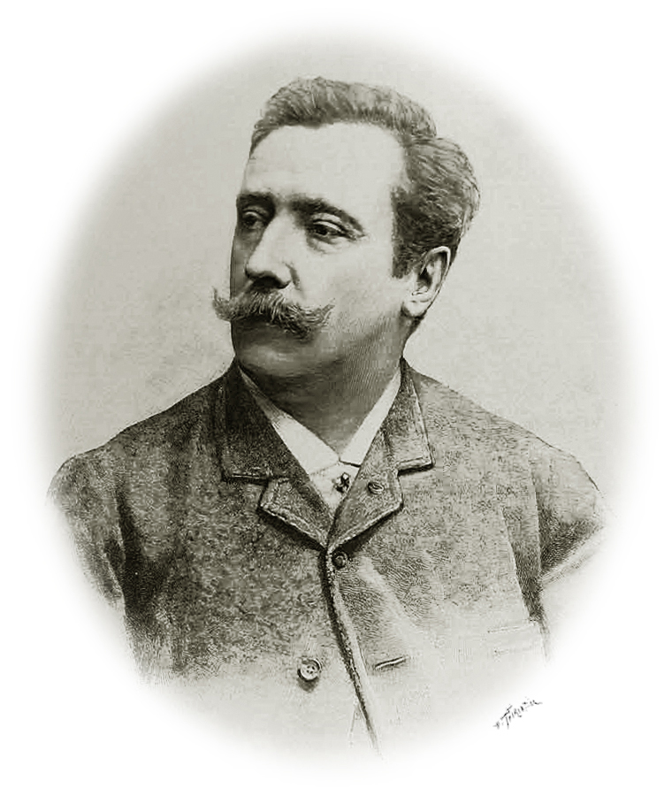 Émile Bayard (1837-1891) on the cover of L'Illustration.